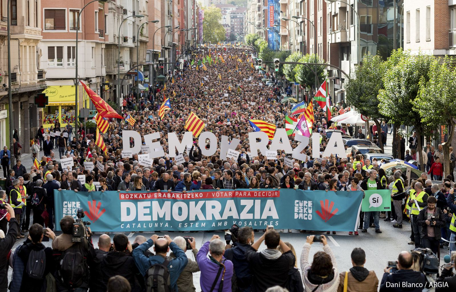 Gure Esku Dago's demonstration in Bilbao in solidarity with Catalonia's independence referendum, 2017/09/16